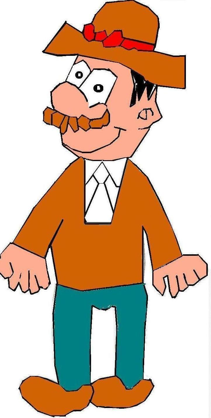 Depiction of the simple and ordinary man, not educated but wise indeed. Dressed in traditional Mexican costume.